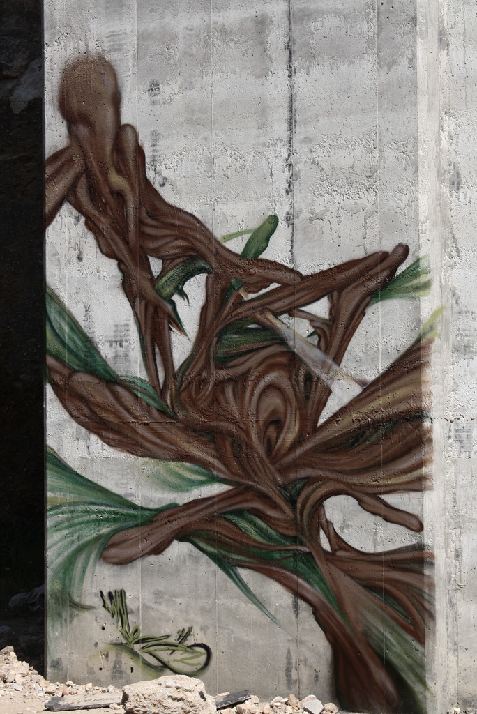 Graffiti in Nerja, Málaga, Spain, by Amarzz